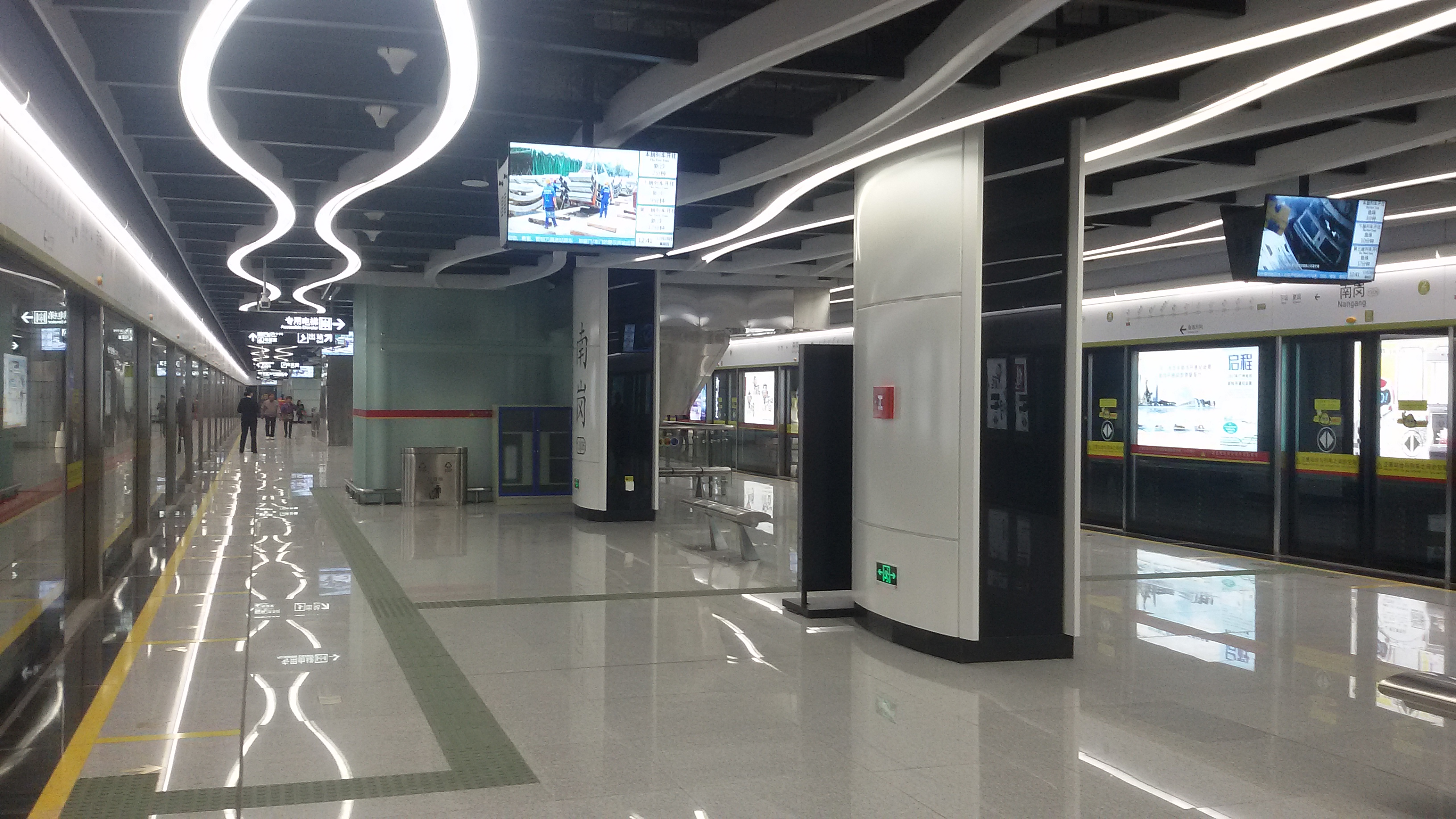 Station Platform for Nangang Station in Guangzhou Metro.